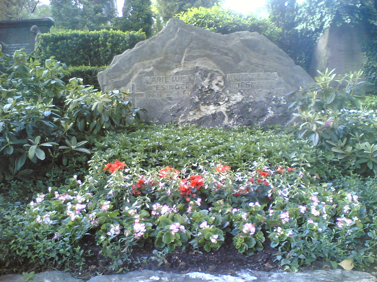 Tomb of Kurt-Georg Kiesinger, Tübingen, Germany